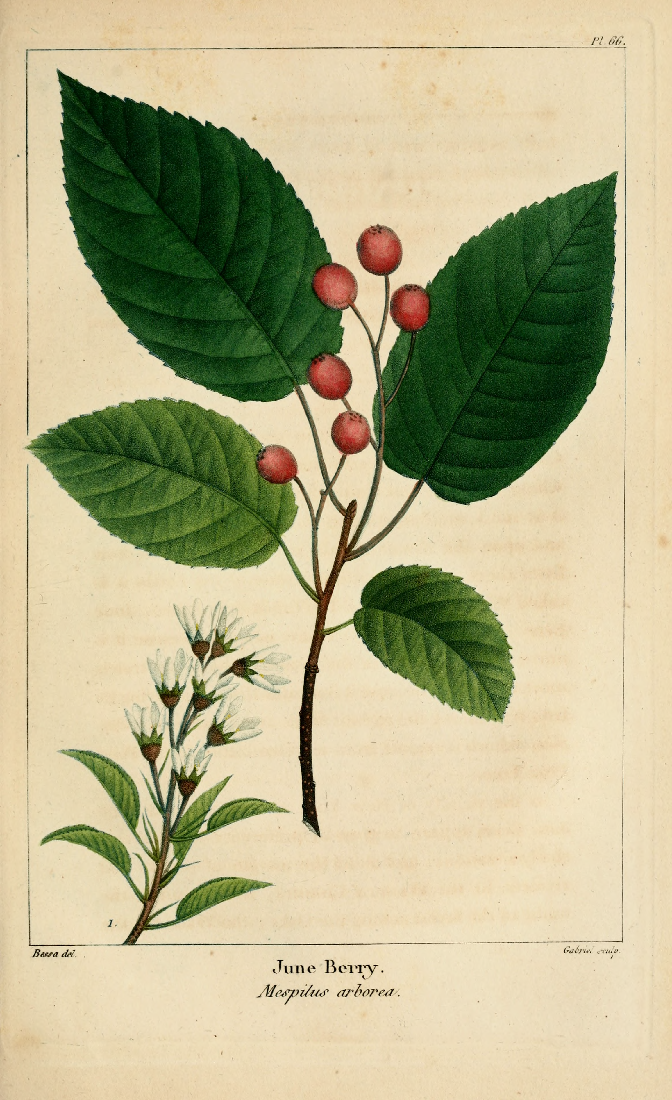 Plate 66 from The North American Sylva: Amelanchier arborea - common serviceberry. (Original caption: "June Berry. Mespilus arborea.")